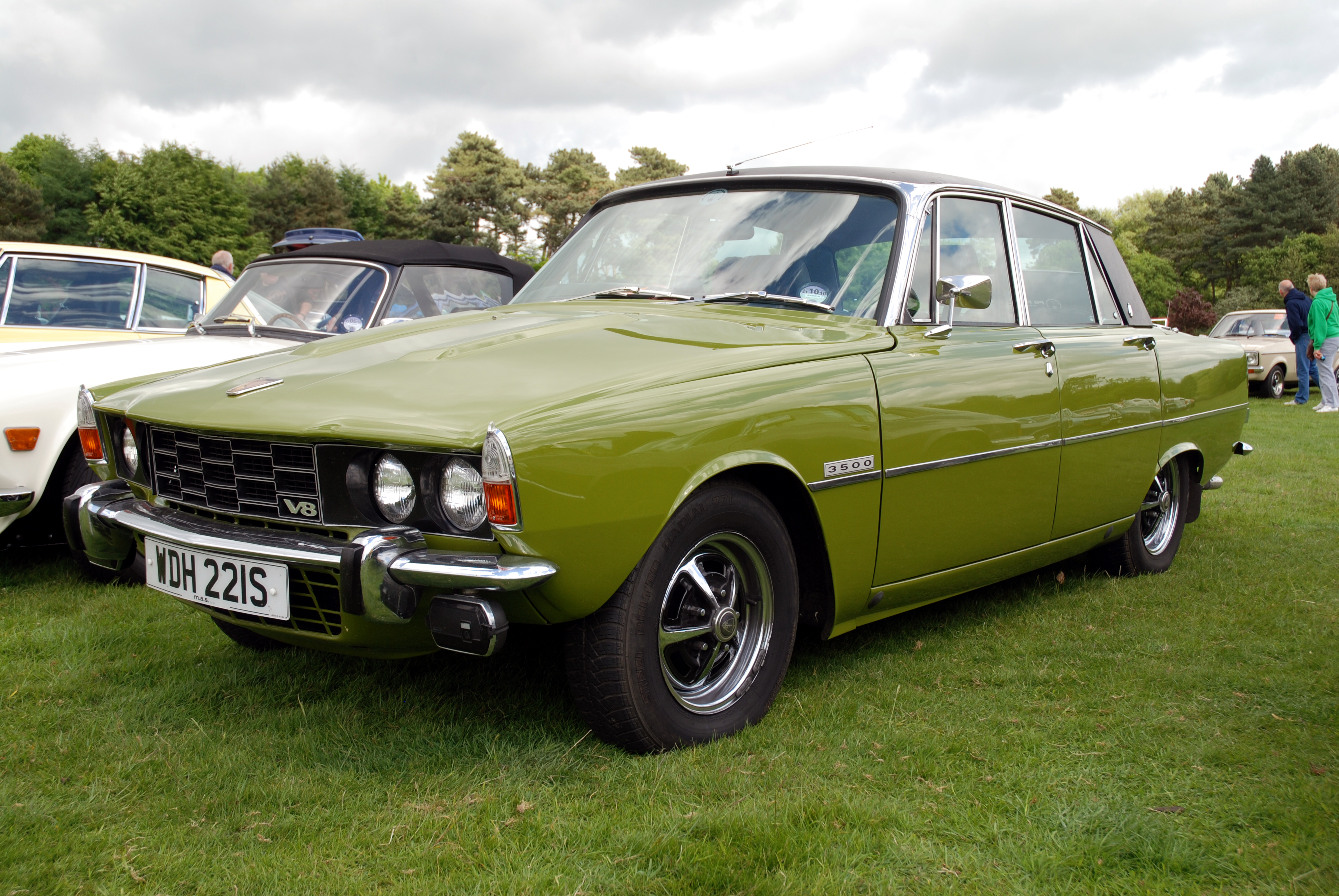 Very late Rover 3500 (1977) at Capesthorne Hall, May 2010